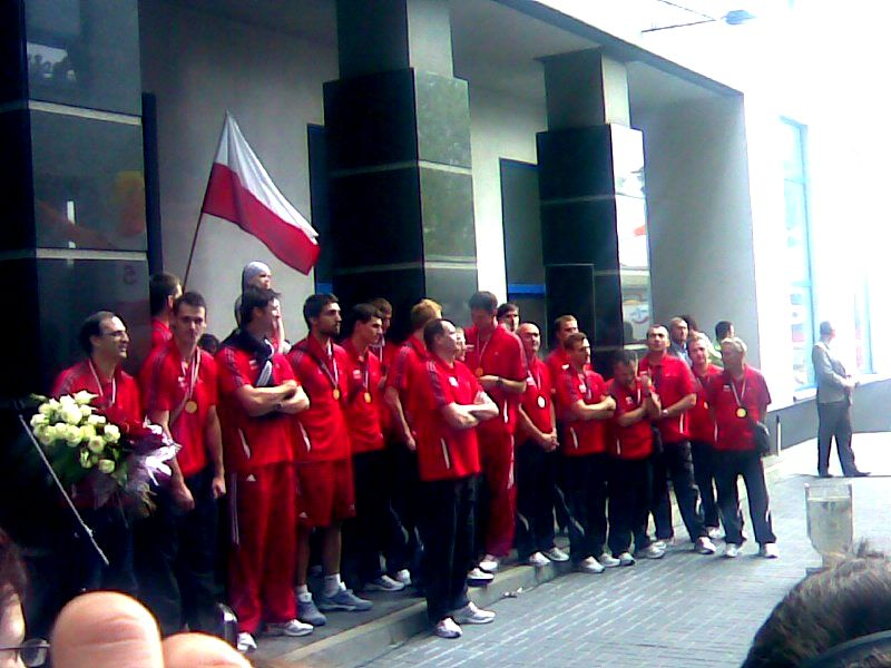 Polish volleyball players, winners of 2009 Men's European Volleyball Championship.